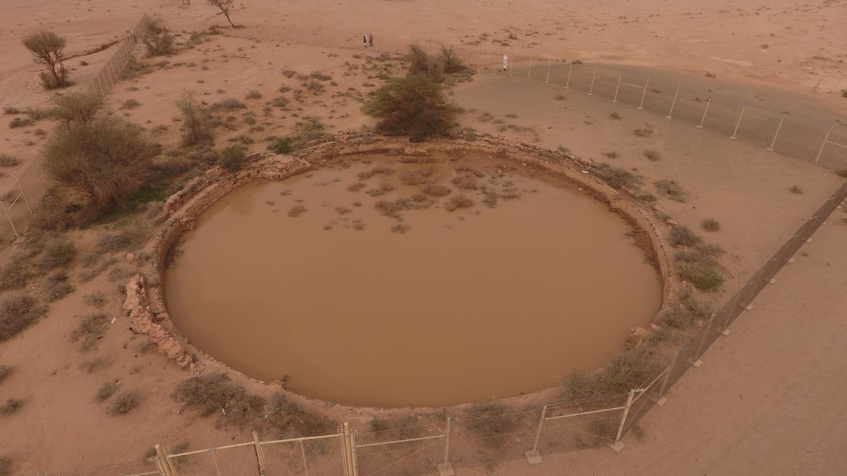 اثار درب زبيدة